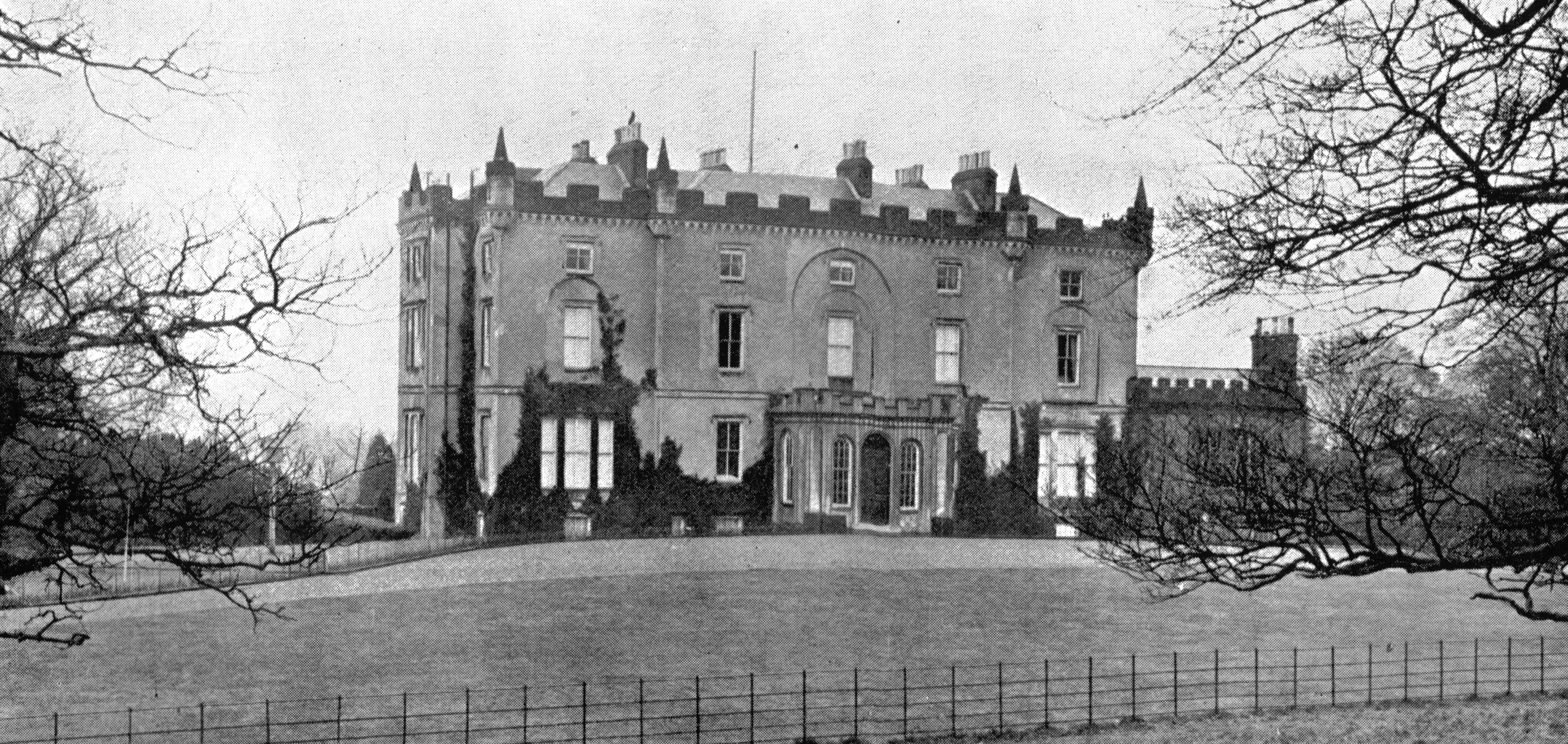 A photograph of Caldwell House